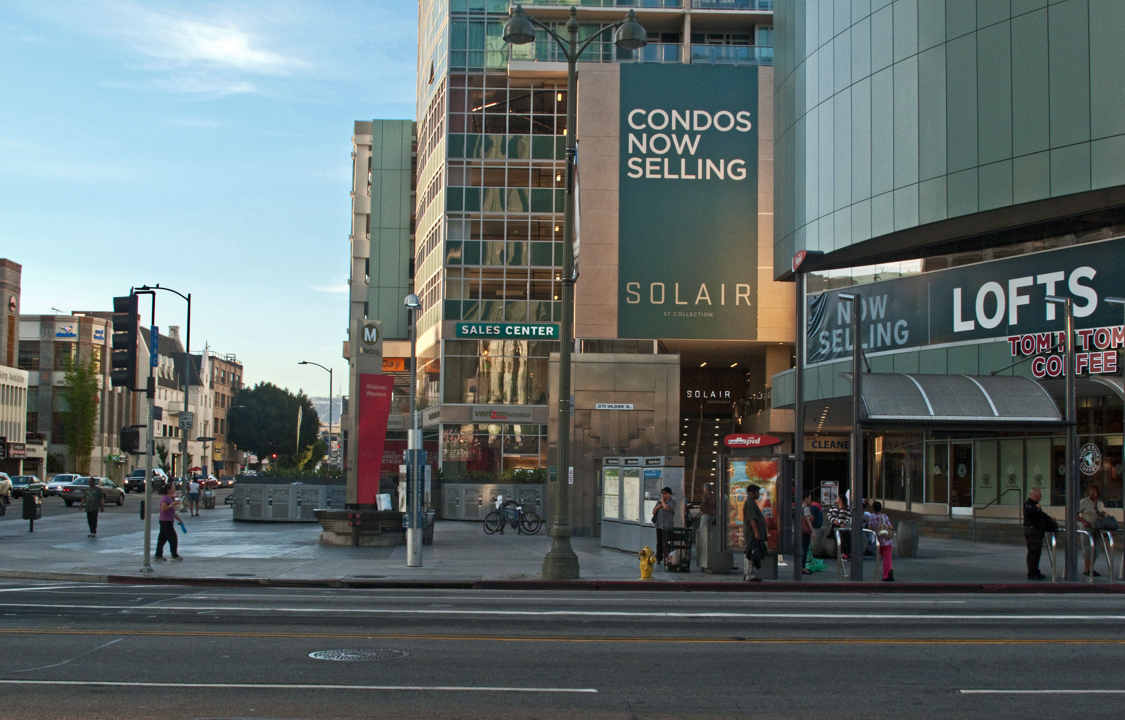 The northeast corner of Wilshire Boulevard and Western Avenues, Los Angeles. On the plaza, there is an entrance to the Purple Line subway station and to the right of the image, a stop for the Metro Rapid #720 bus, a very popular bus route that traverses the city along Wilshire Boulevard.